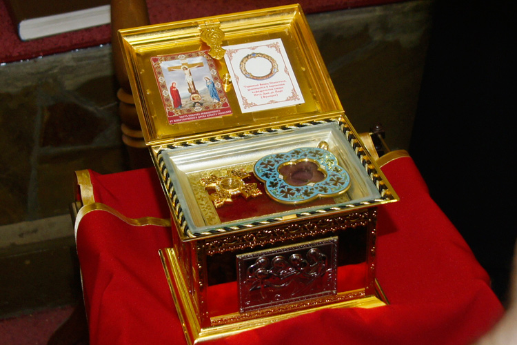 Saint Cross in Armenian Church Sourb Gevorg in Volgograd